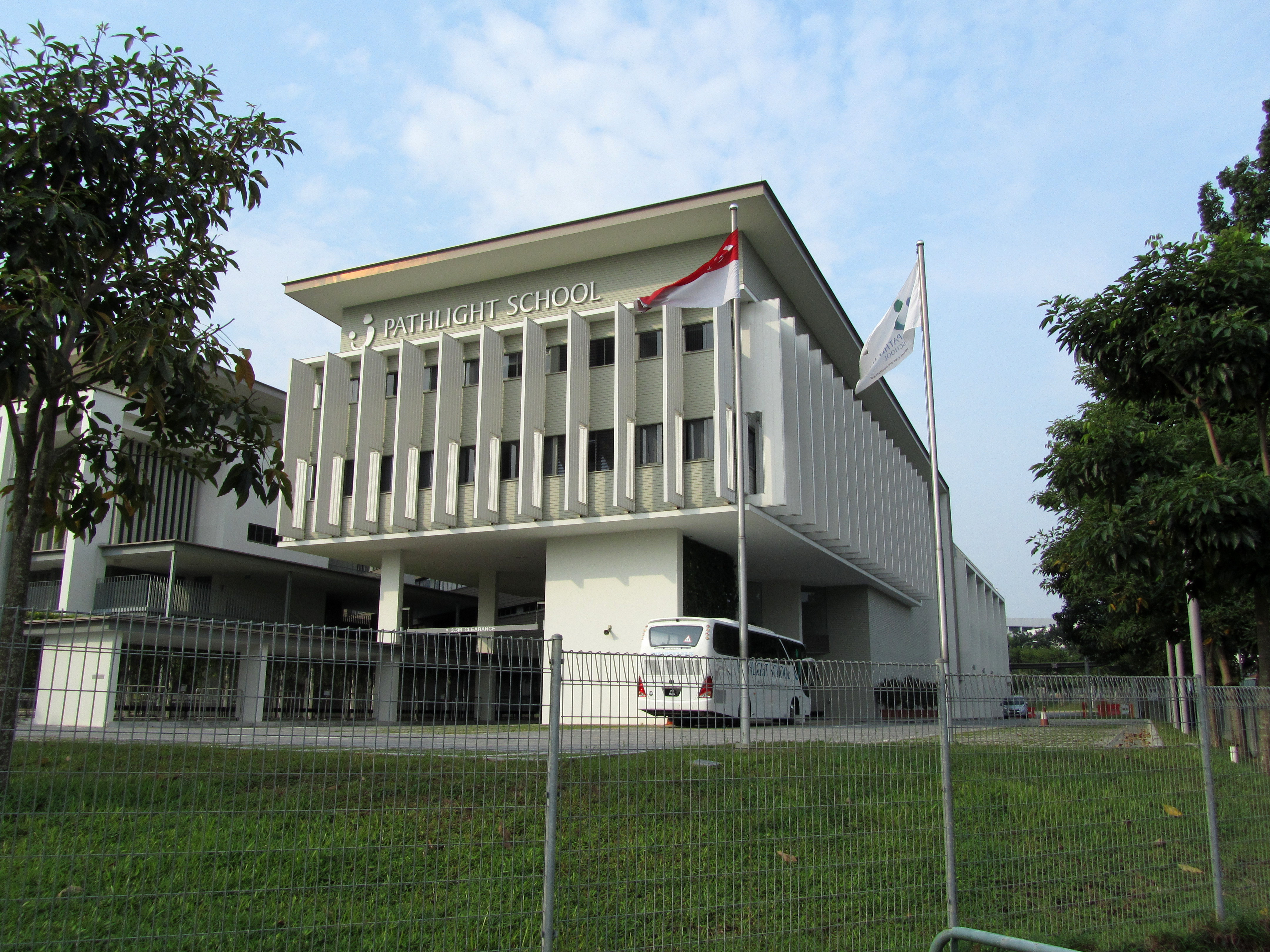 Pathlight School, a school for autistic children in Singapore. Taken from the junction of Ang Mo Kio Avenue 1 and 10.